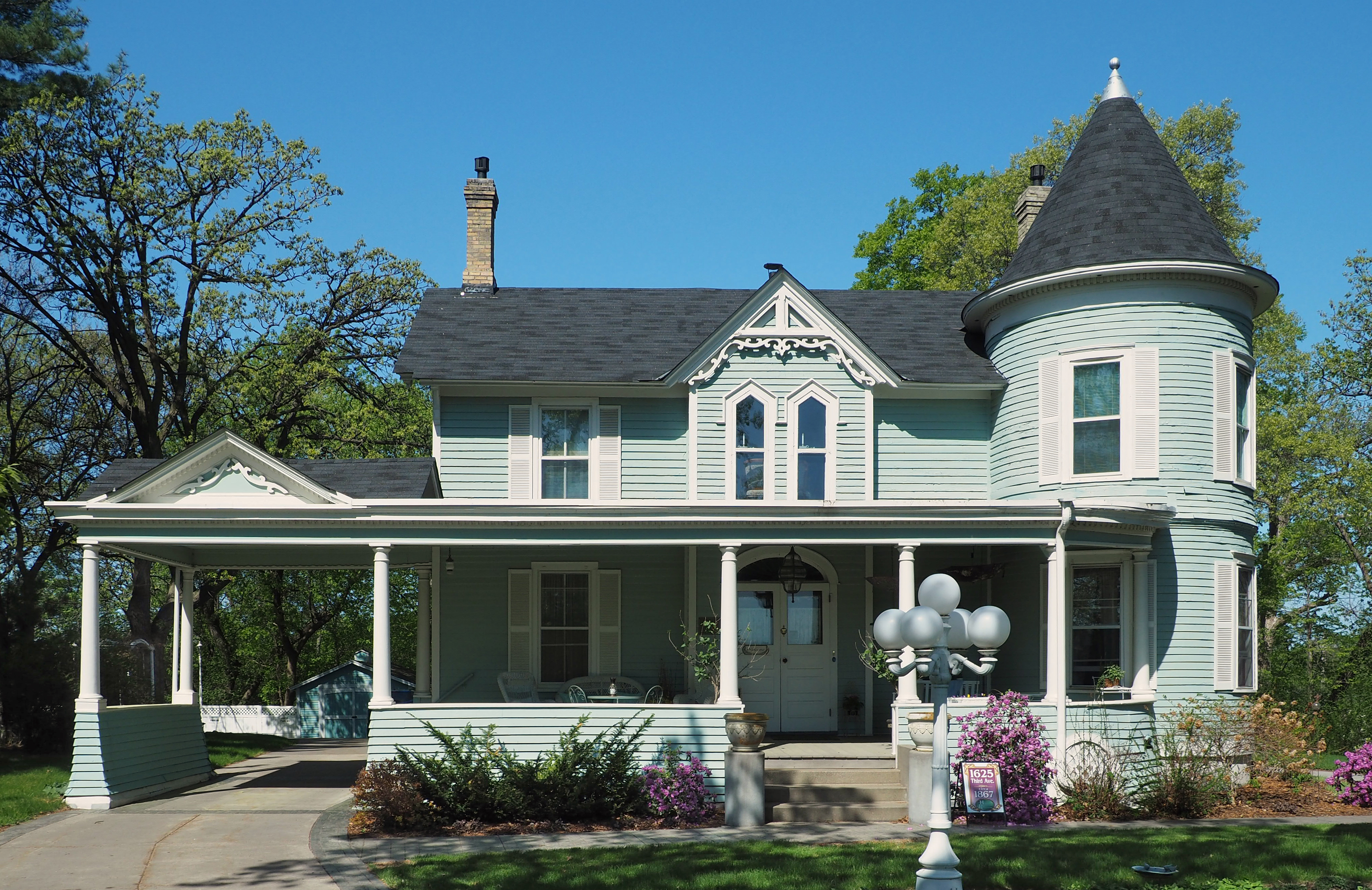 Heman L. Ticknor House (now Ticknor Hill Bed & Breakfast), 1625 3rd Ave S, Anoka, Minnesota, USA. Viewed from the east.